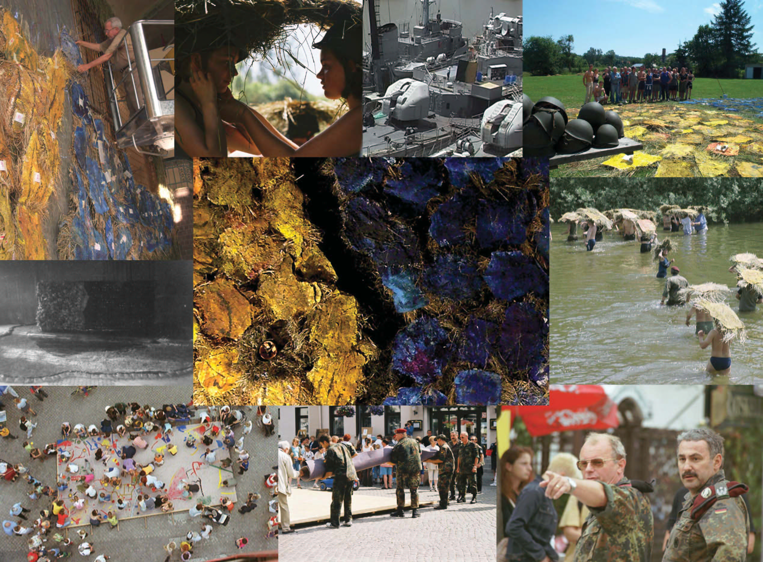 Batuz' project "no mas fronteras" in action